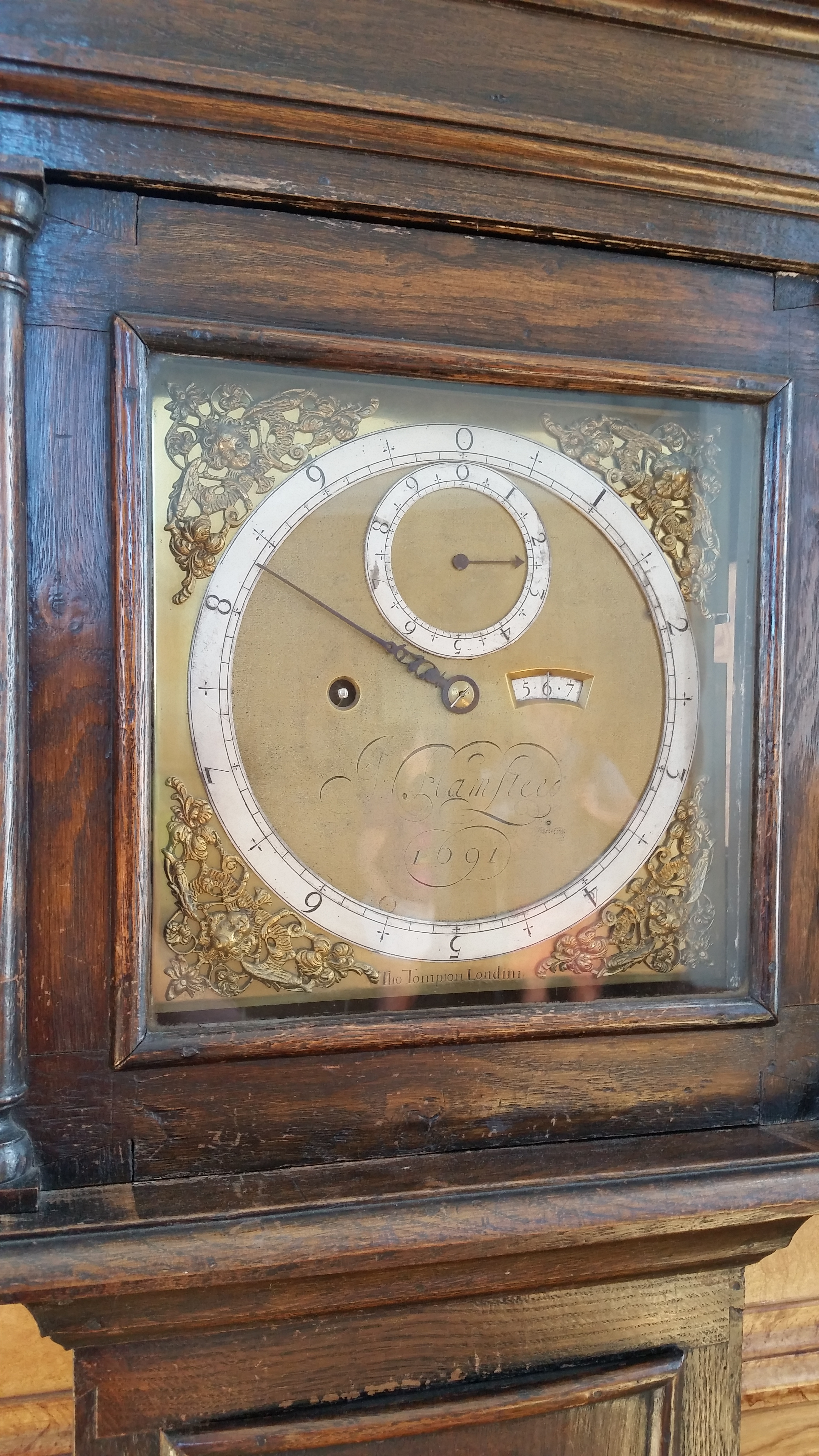 Photo of the face of the Sidereal Angle clock in the Royal Observatory in Greenwich, England.